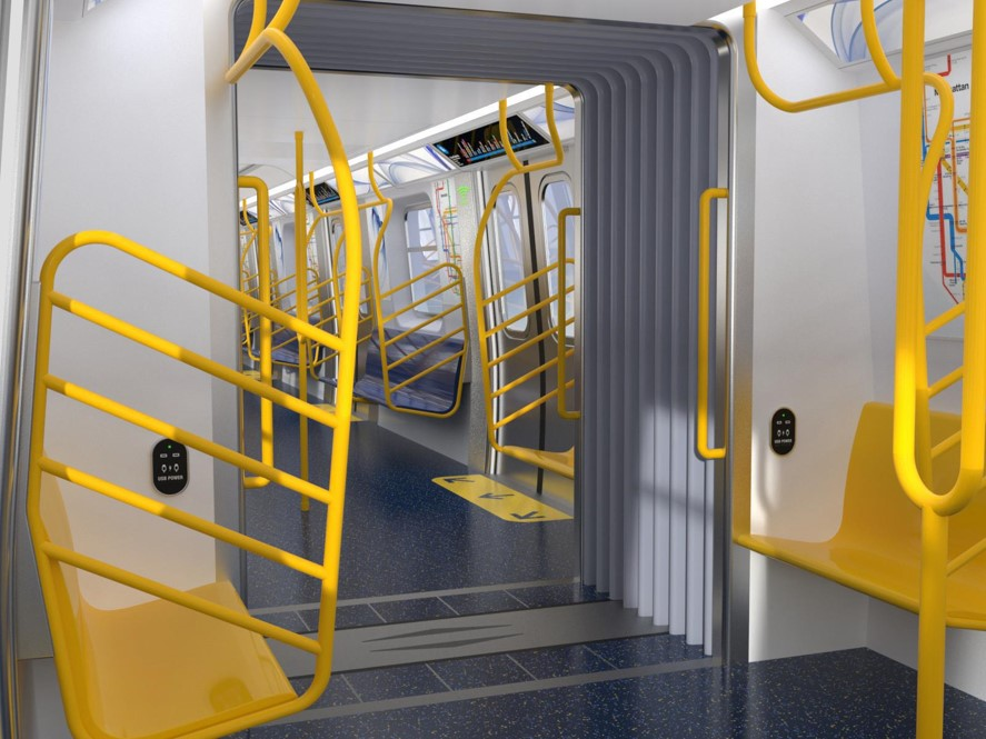 MTA New York City Transit on Feb. 24, 2020 announced plans to develop and purchase up to 949 new subway cars with an open-gangway configuration, designed for the numbered lines, that would increase passenger flow to allow customers to move freely between cars, and have the potential to improve dwell times at stations and increase capacity.